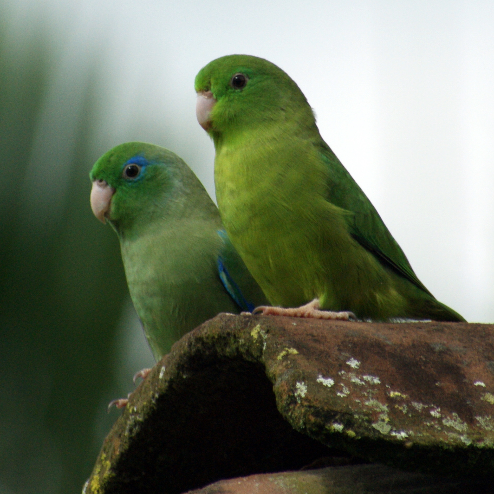 A pair of of Spectacled Parrotlets in Colombia.